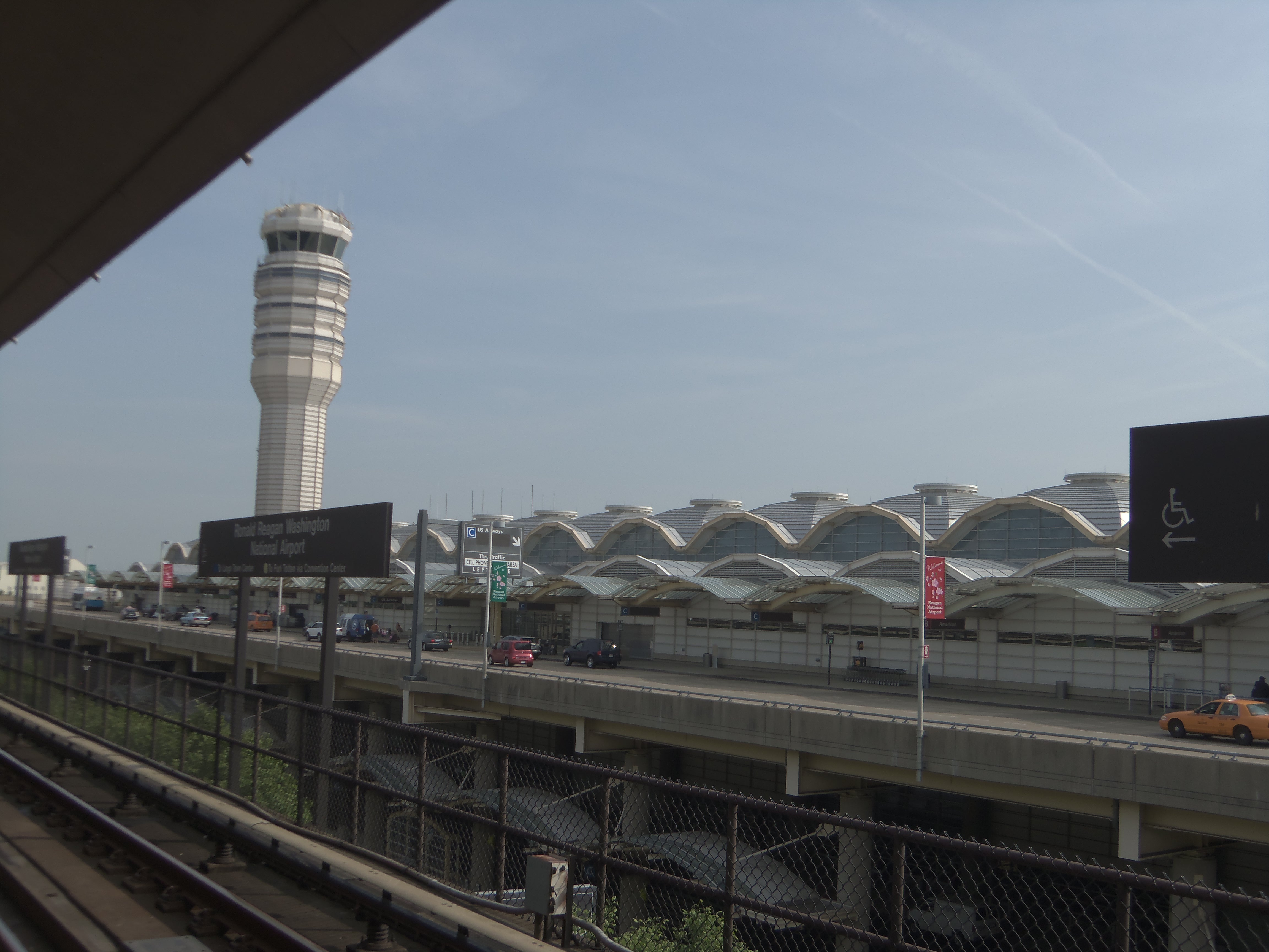 WMATA stop at RR Airport